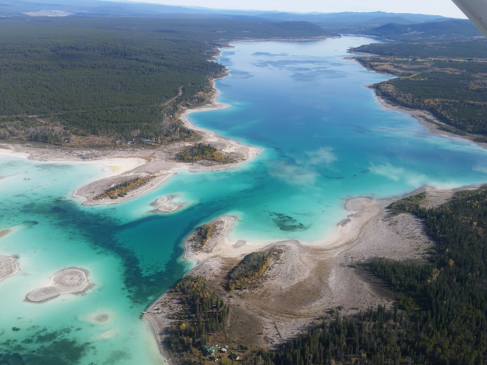 View from the air of Eagle Lake, BC, looking east.